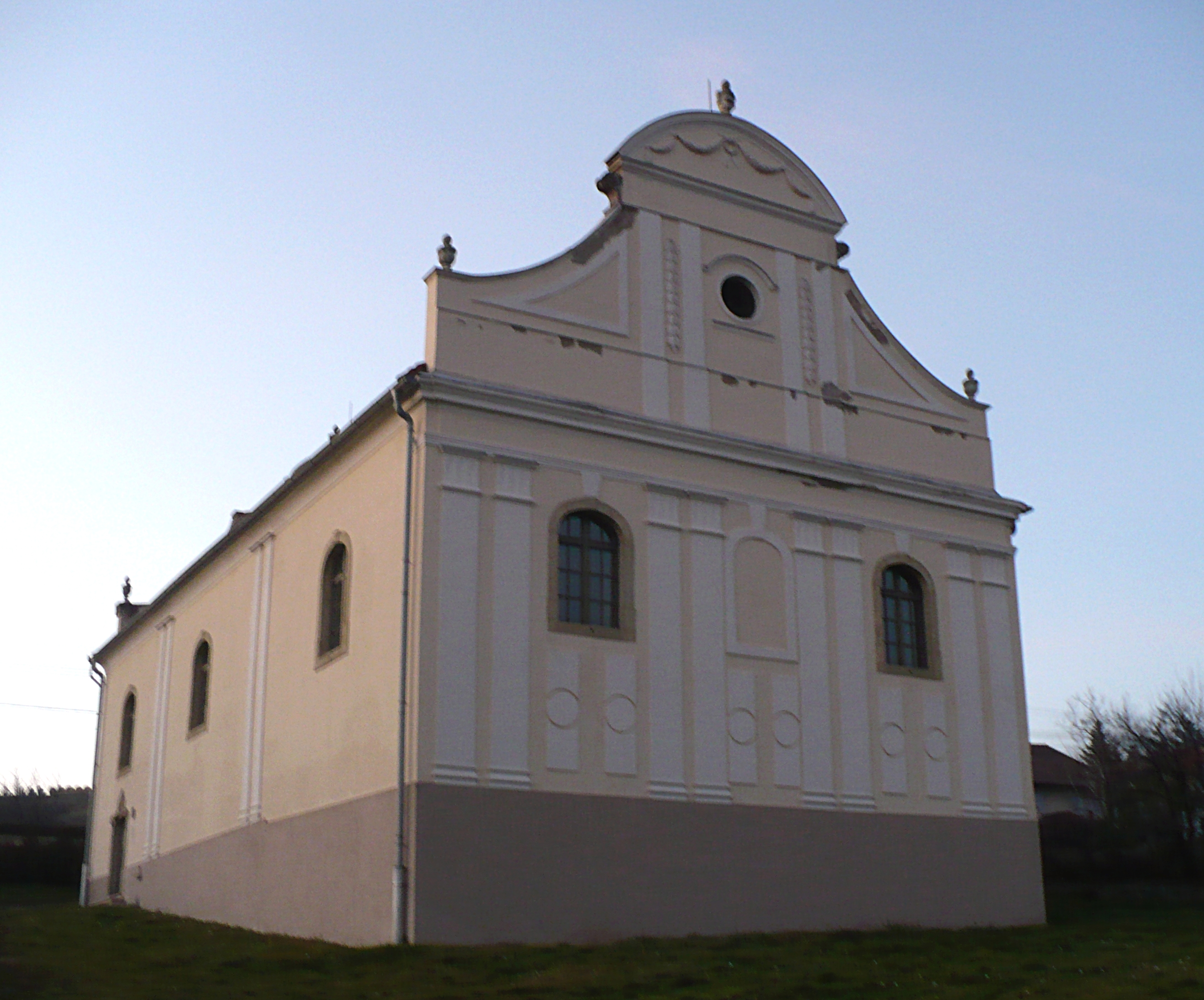 synagouge in Mád